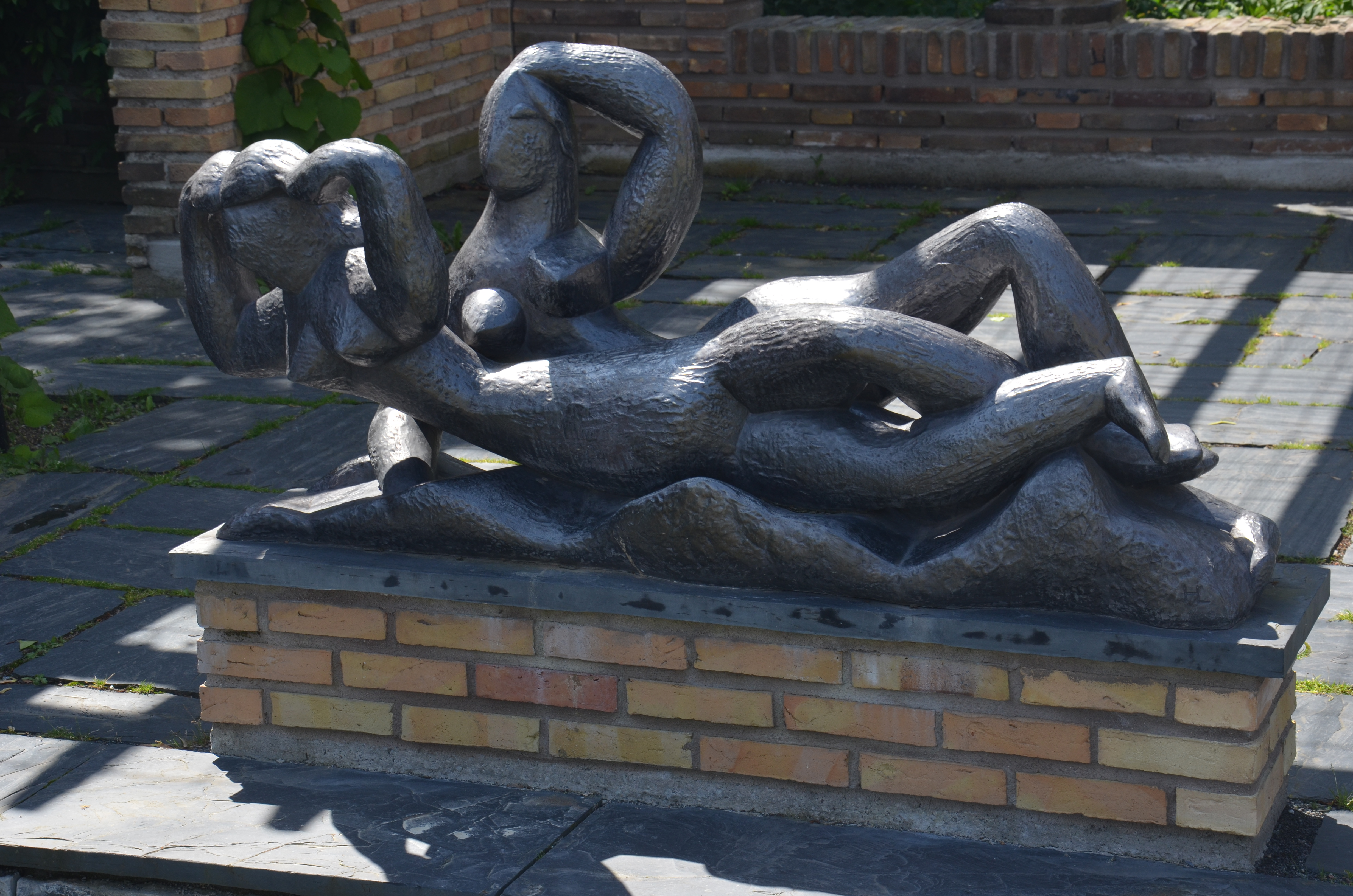 Henri Laurens´ Undinerna, Marabouparken, Sundbyberg, Sweden